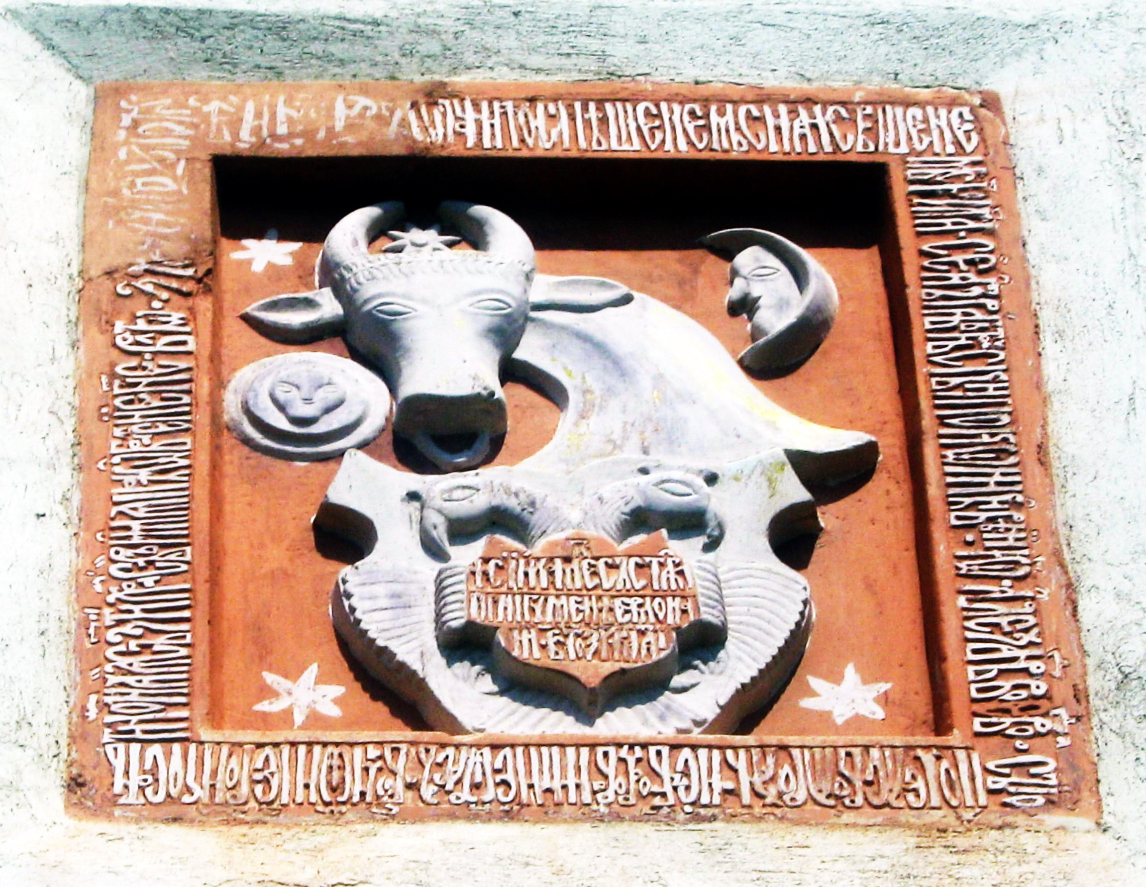 Slatina Monastery